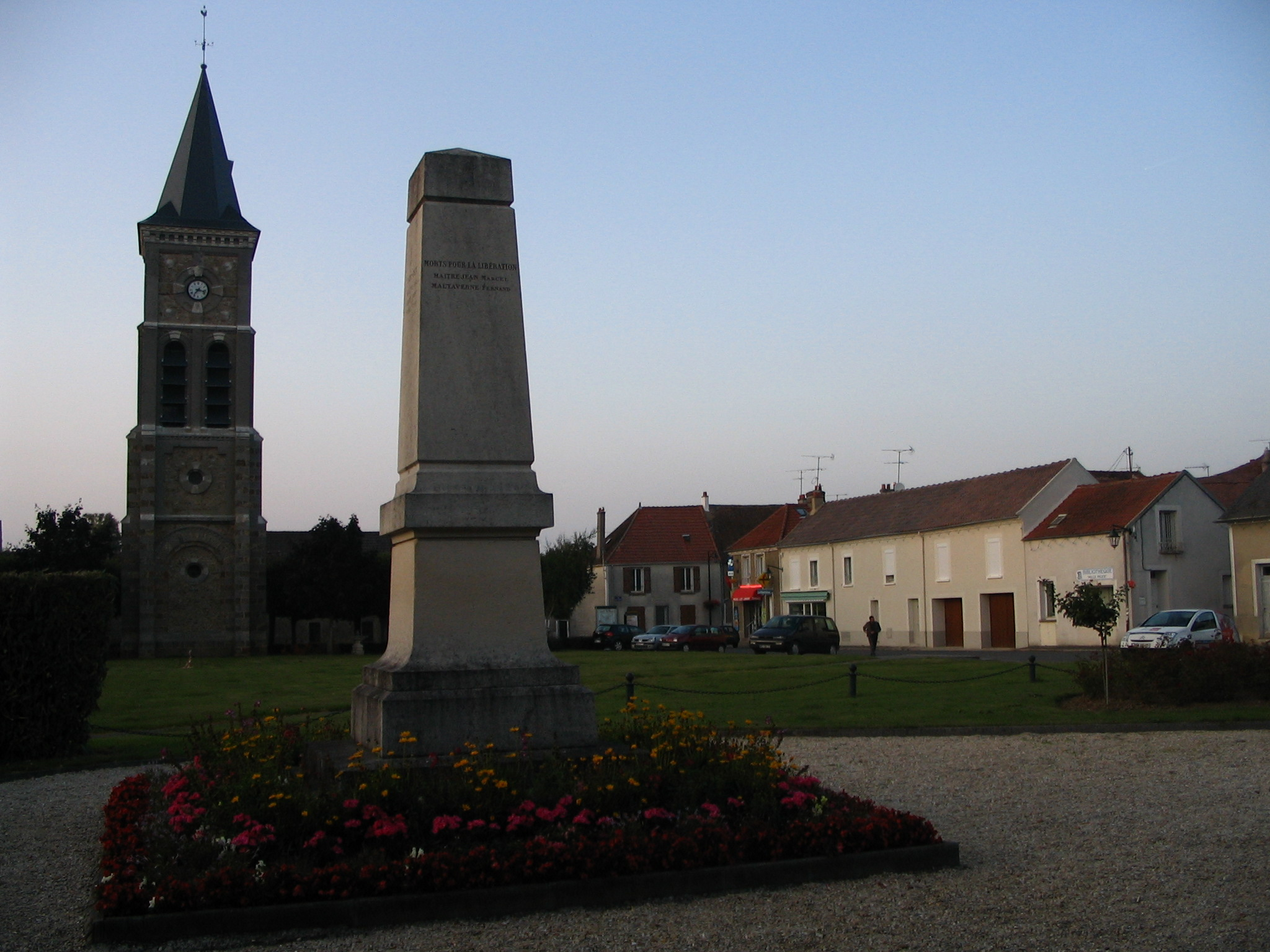 The bell tower and war memorial of Grisy-Suisnes, Seine-et-Marne, France.